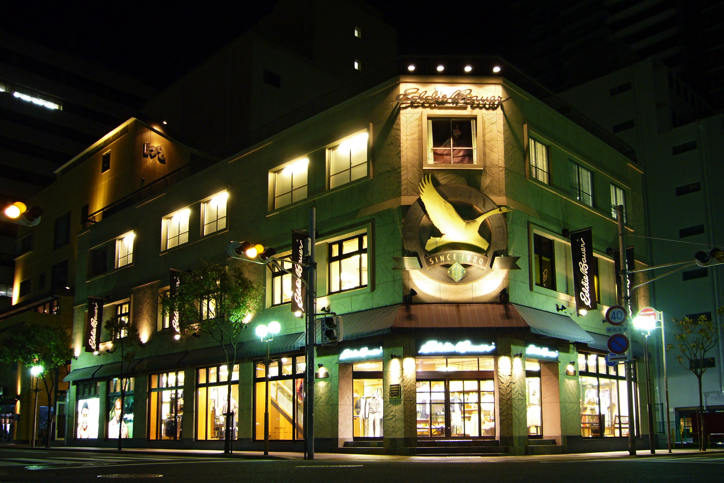 Eddie Bauer Kobe-Motomachi Store in Kyukyoryuchi, Kobe, Hyogo prefecture, Japan